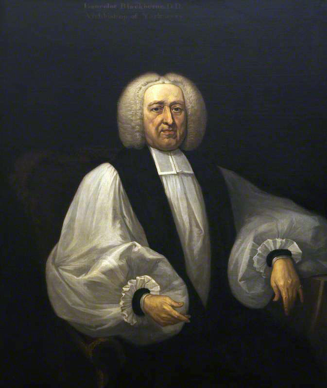 Portrait of Lancelot Blackburne (1658–1743), Archbishop of York